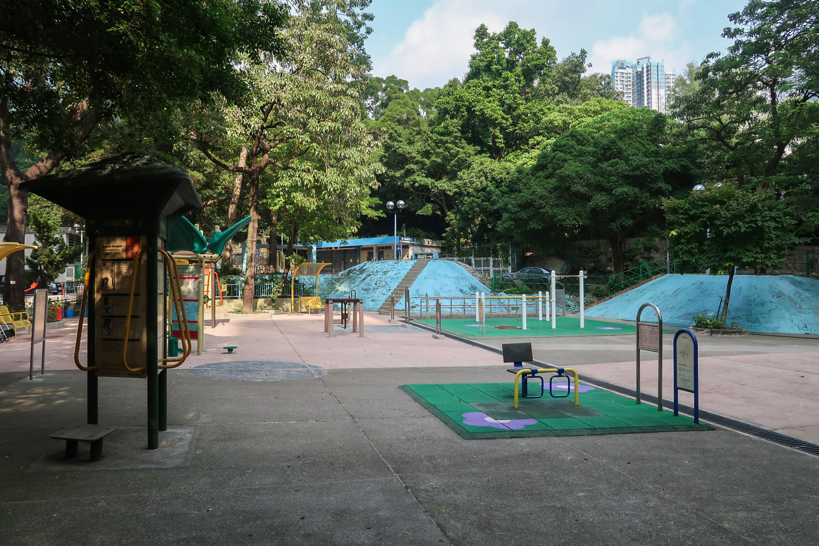 Ping Shek Estate Former play area